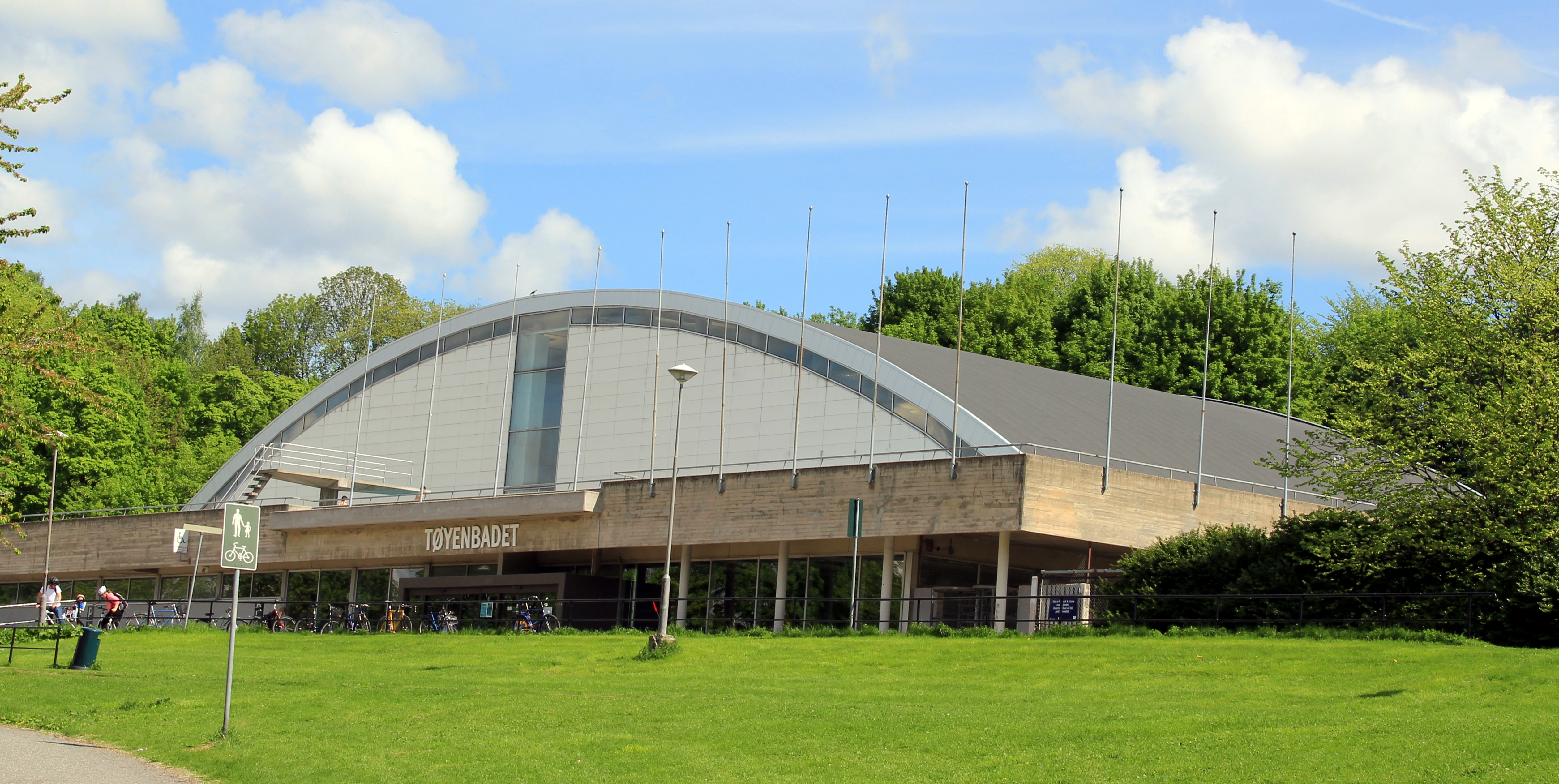 Tøyenbadet, public bath